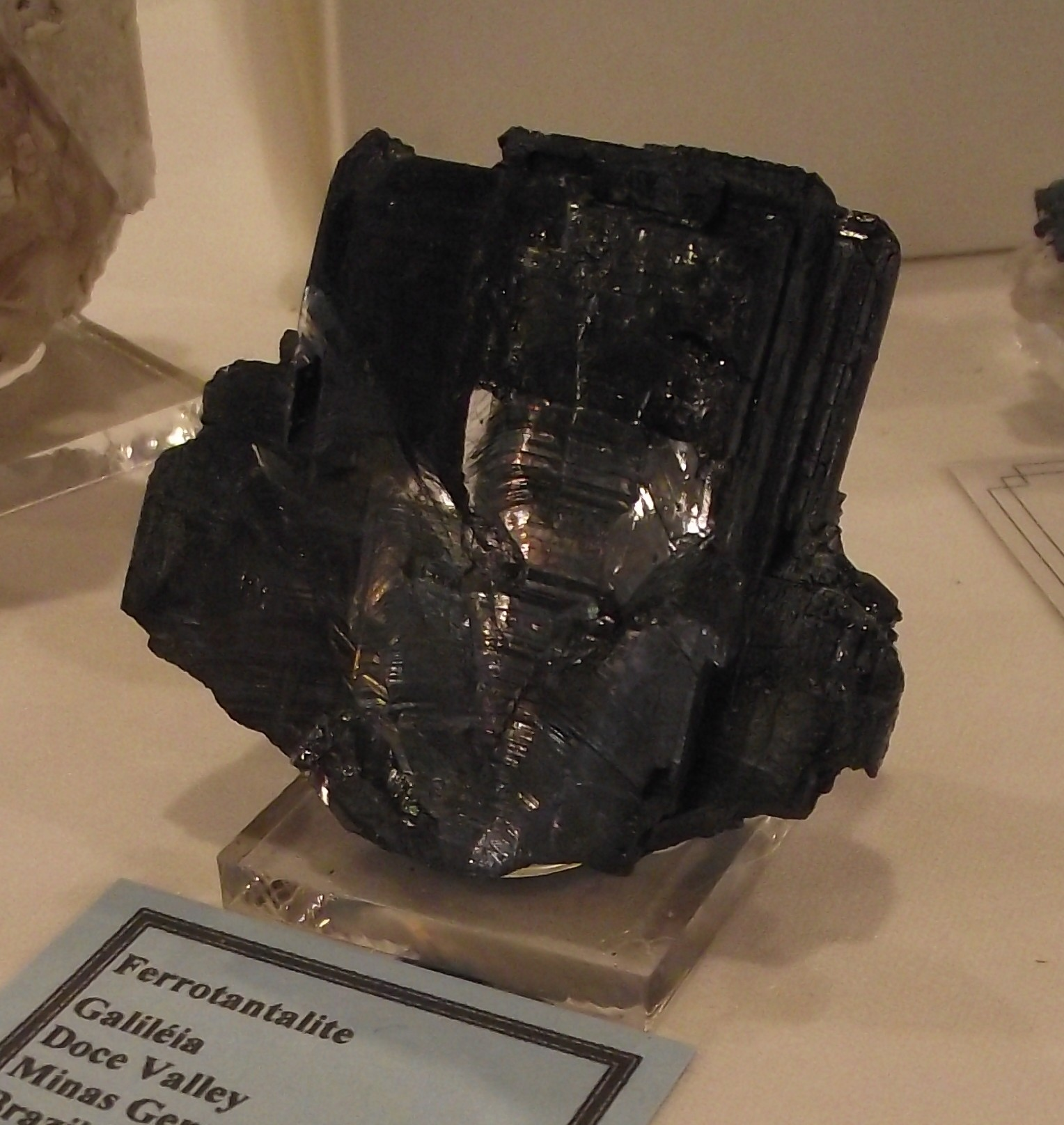 Ferrotantalite specimen from Galileia, Minas Gerais, Brazil. On display at the San Diego County Fair, California, USA.